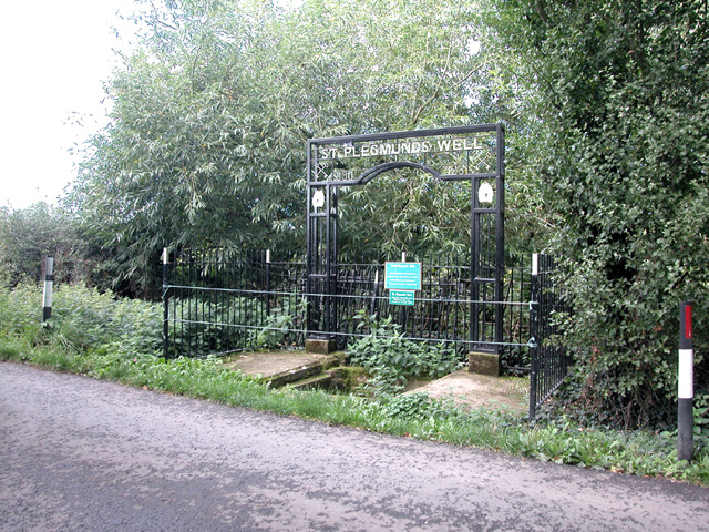 Photograph